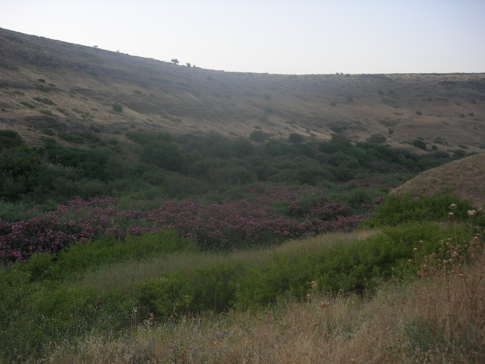 Wadi Yavneel, Jordan Valley, Israel